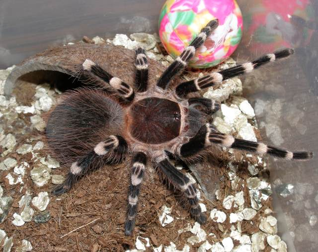 Acanthoscurria geniculata, brazilian white knee spider. Size of the ball is 4cm. Age: ~10L. Male.